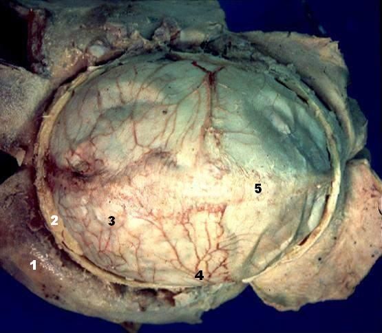 Meninges of the human brain The brain and spinal cord have three connective tissue coverings called the meninges. The outer covering, shown here following removal of the calvaria or skull cap, is the tough Dura Mater. Skin Bone Dura mater A. meningea media Sinus sagittalis superior (font: arial black, size: 14)